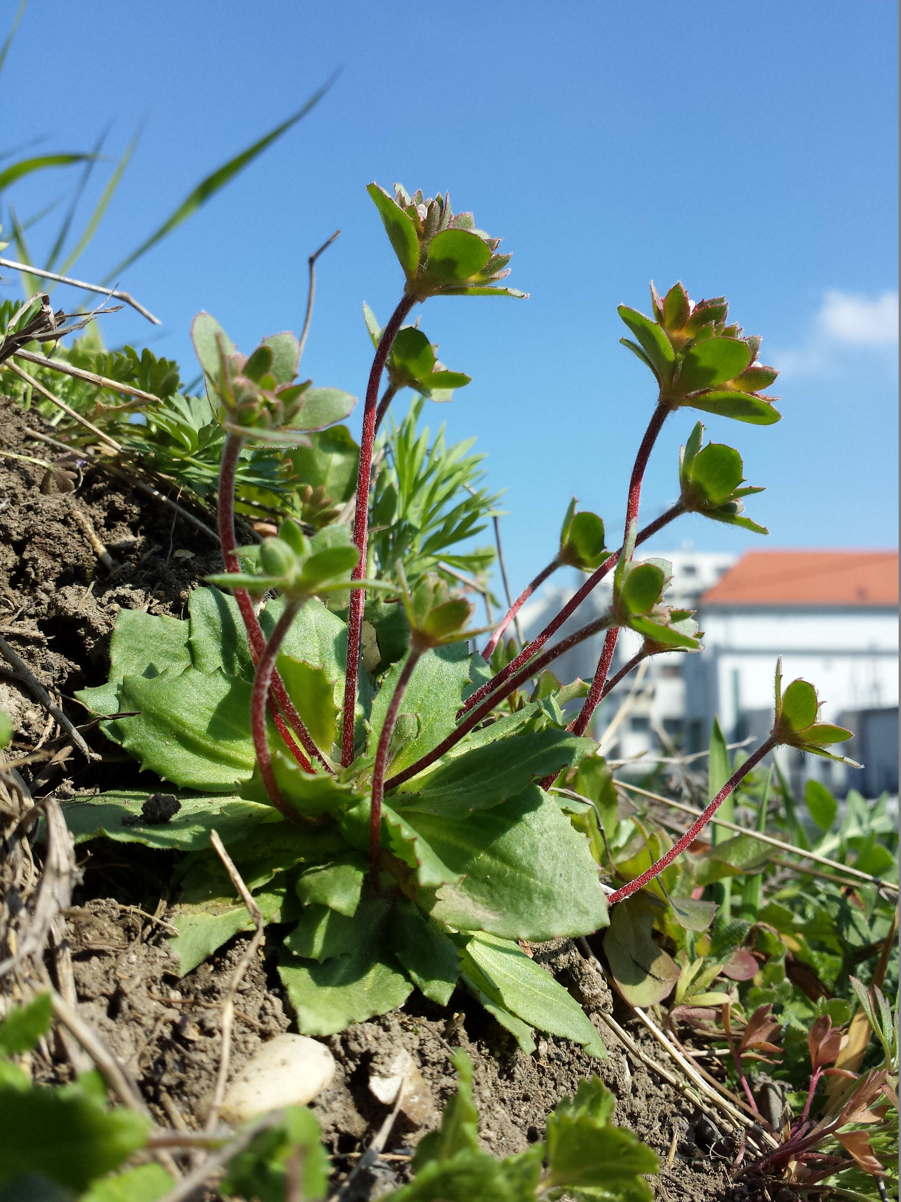 Habitus Taxonym: Androsace maxima ss Fischer et al. EfÖLS 2008 ISBN 978-3-85474-187-9 Location: Sinawastingasse, Vienna-Floridsdorf - ca. 160 m a.s.l. Habitat: slope